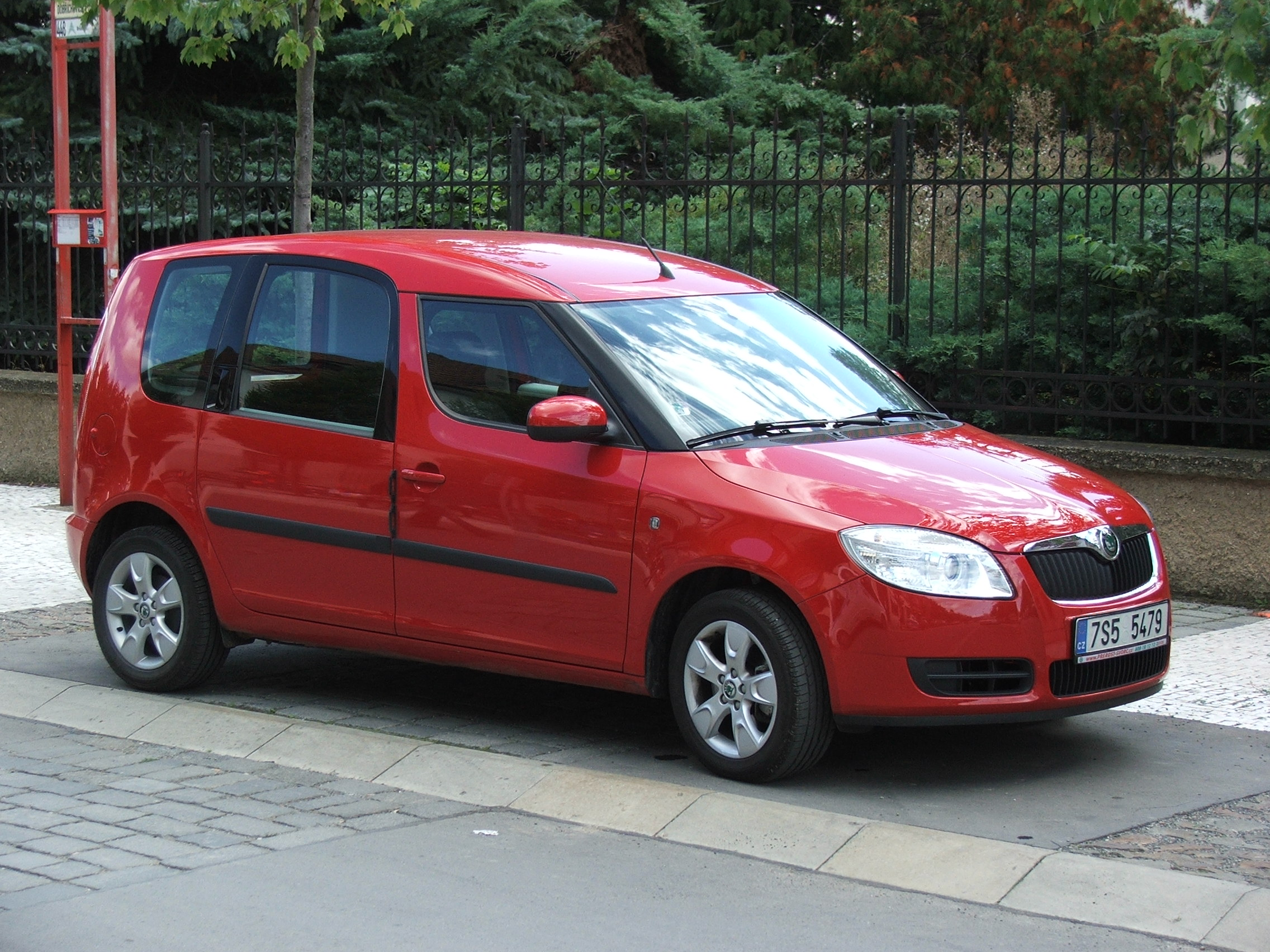 Škoda Roomster on the Czech streets - September 2007.